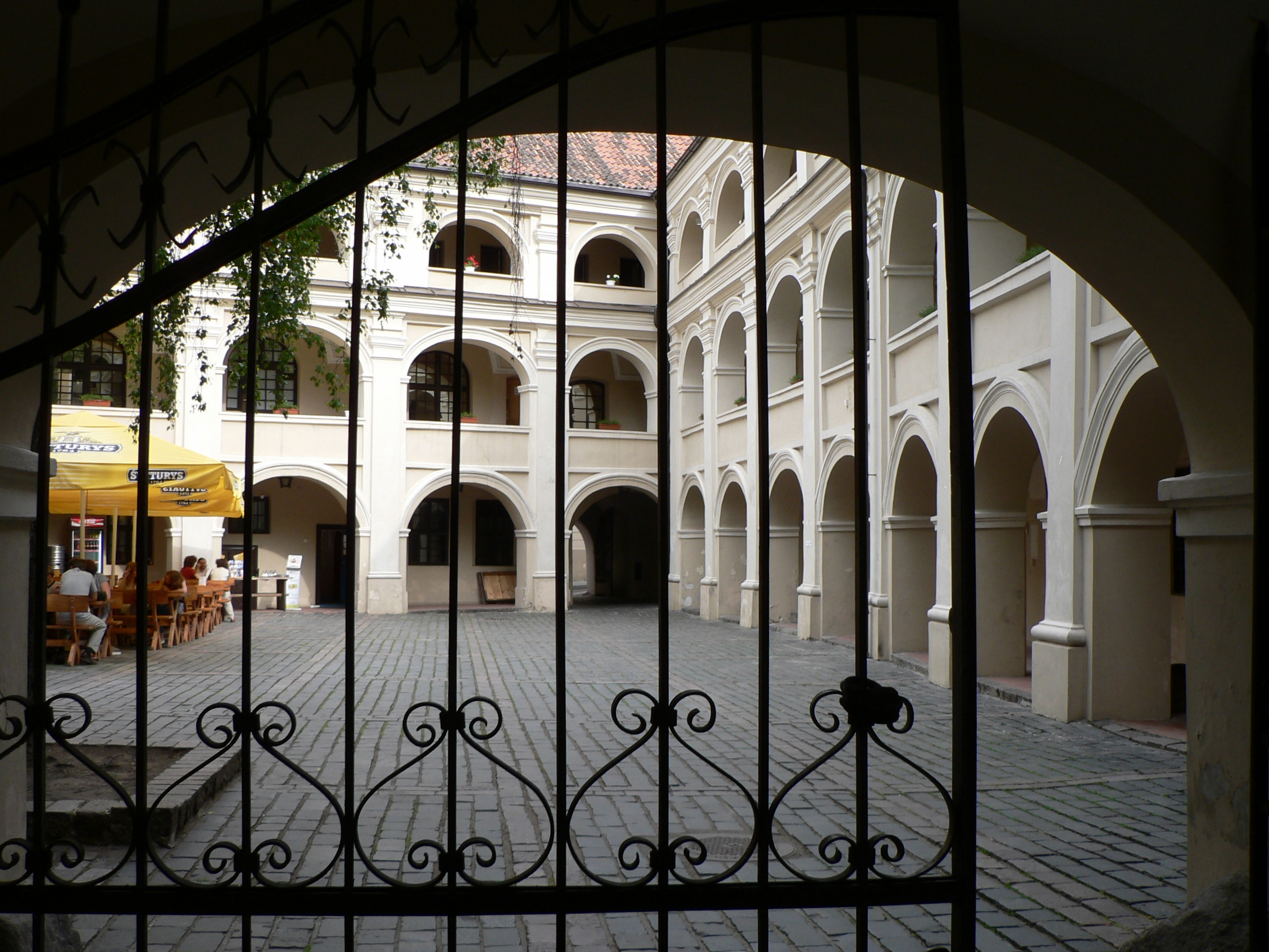 Alumni yard, University street 4, Vilnius, Lithuania